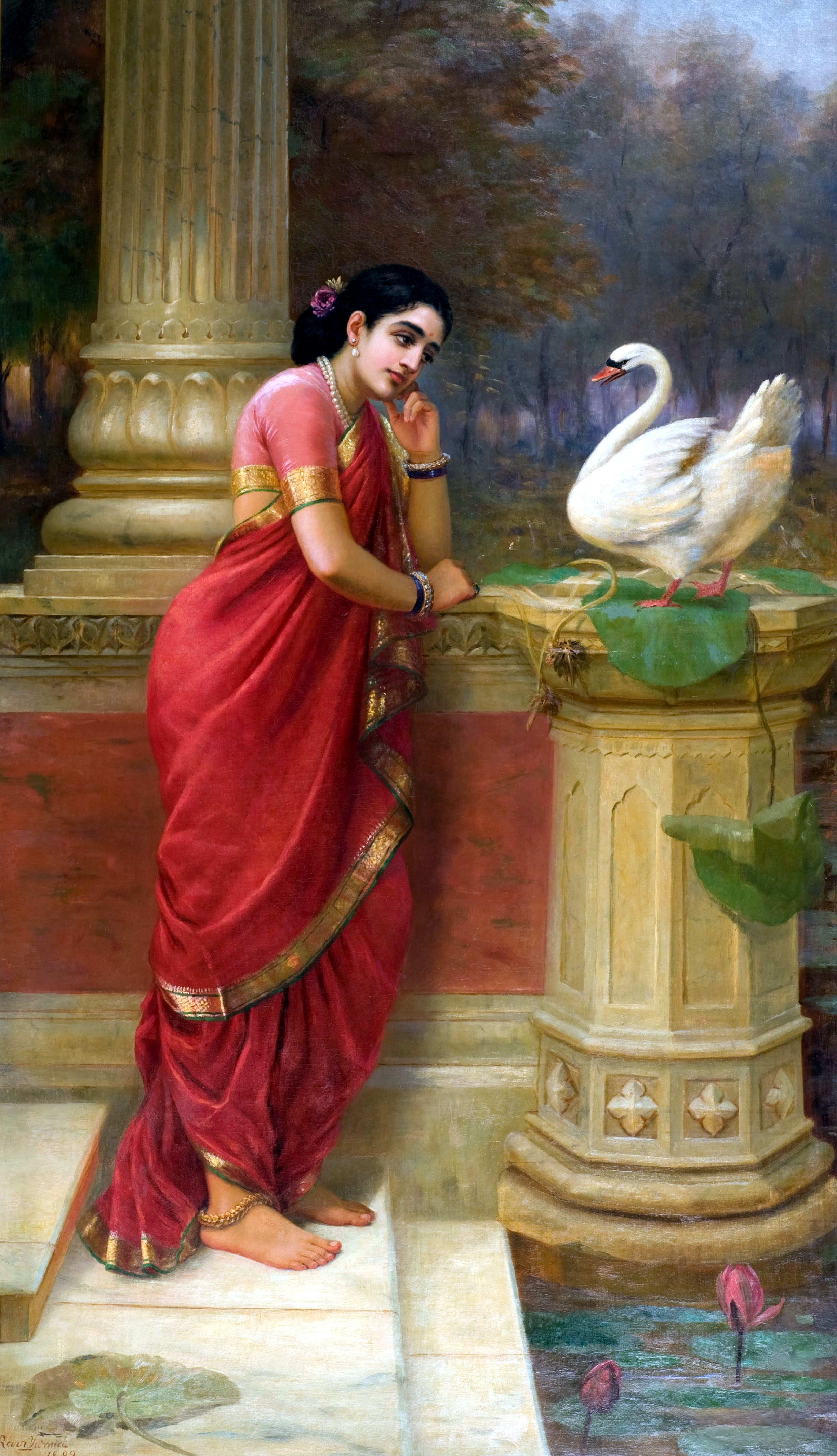 Damayanthi talking with Royal swan about Nala